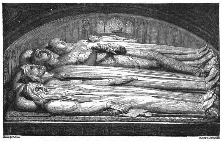 "Grave" by William Blake. Woodcut.